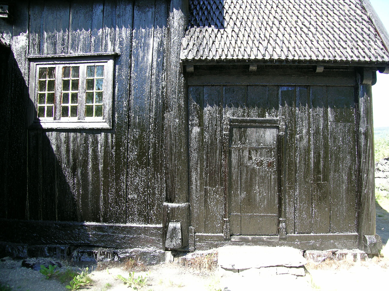 Newly tarred wall. Garmo stave church, Maihaugen folk museum, Lillehammer, Norway. Tar distilled from pinewood in a peat-coated kiln.